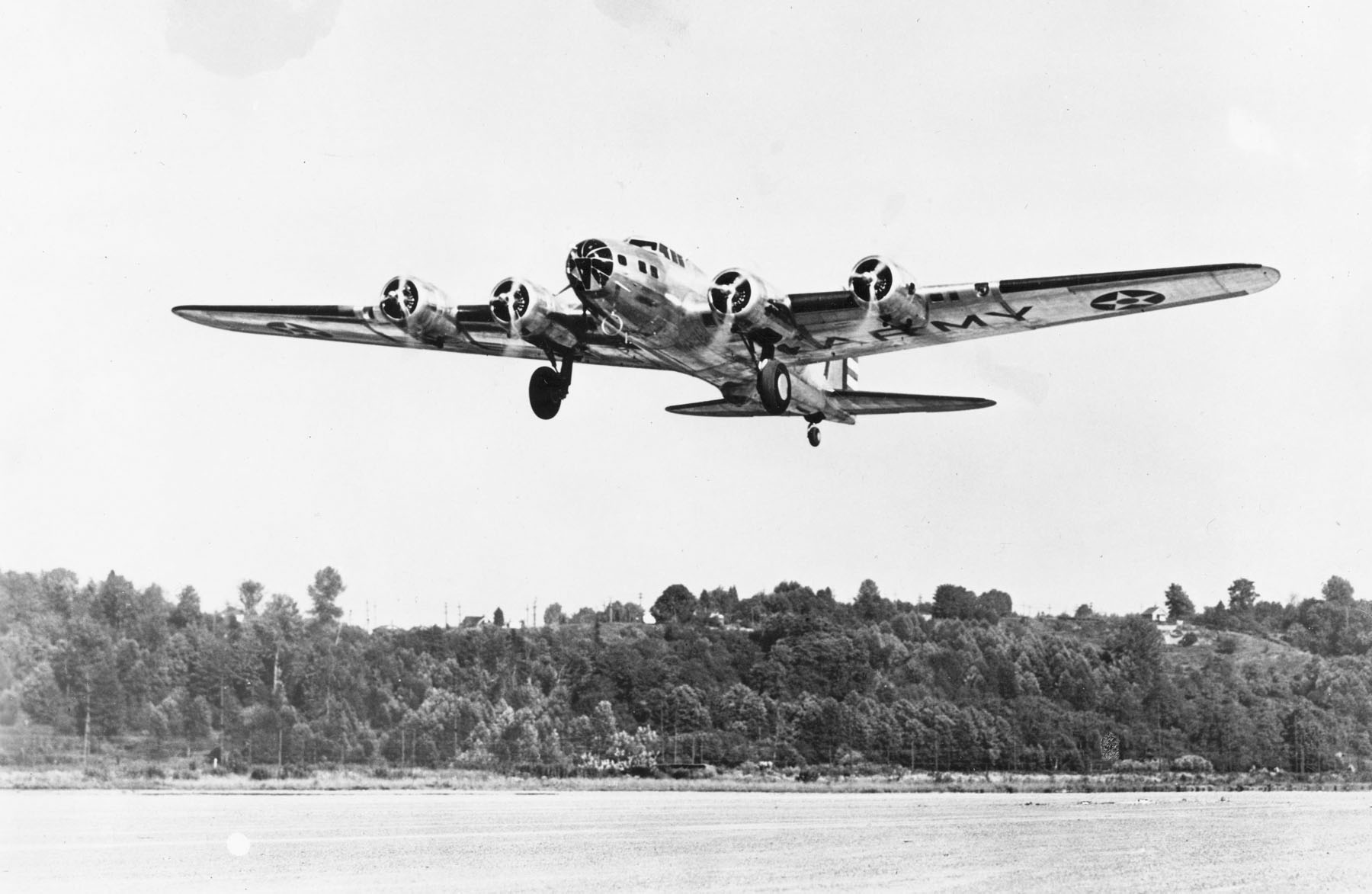 Boeing B-17B just after take off